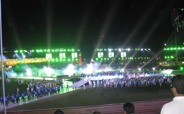 foto taken by me of the opening ceremony